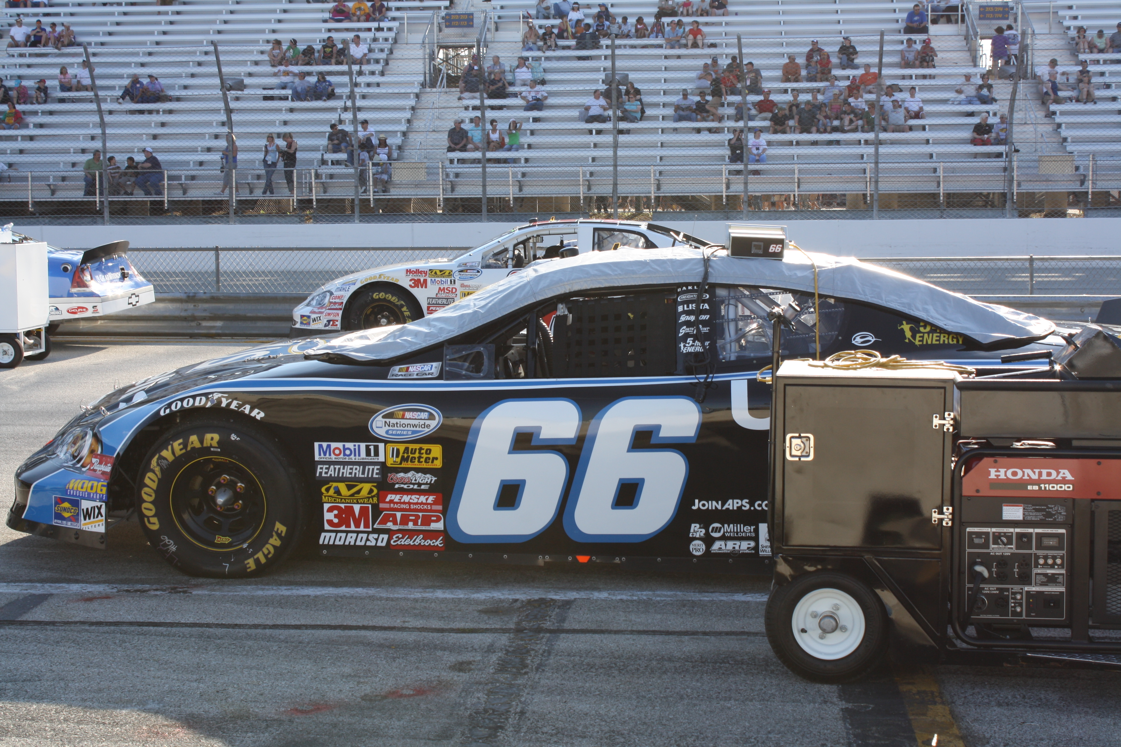 NASCAR driver Steven Wallaces Chevrolet at the 2009 Northern 250 Nationwide Series race at the Milwaukee Mile.